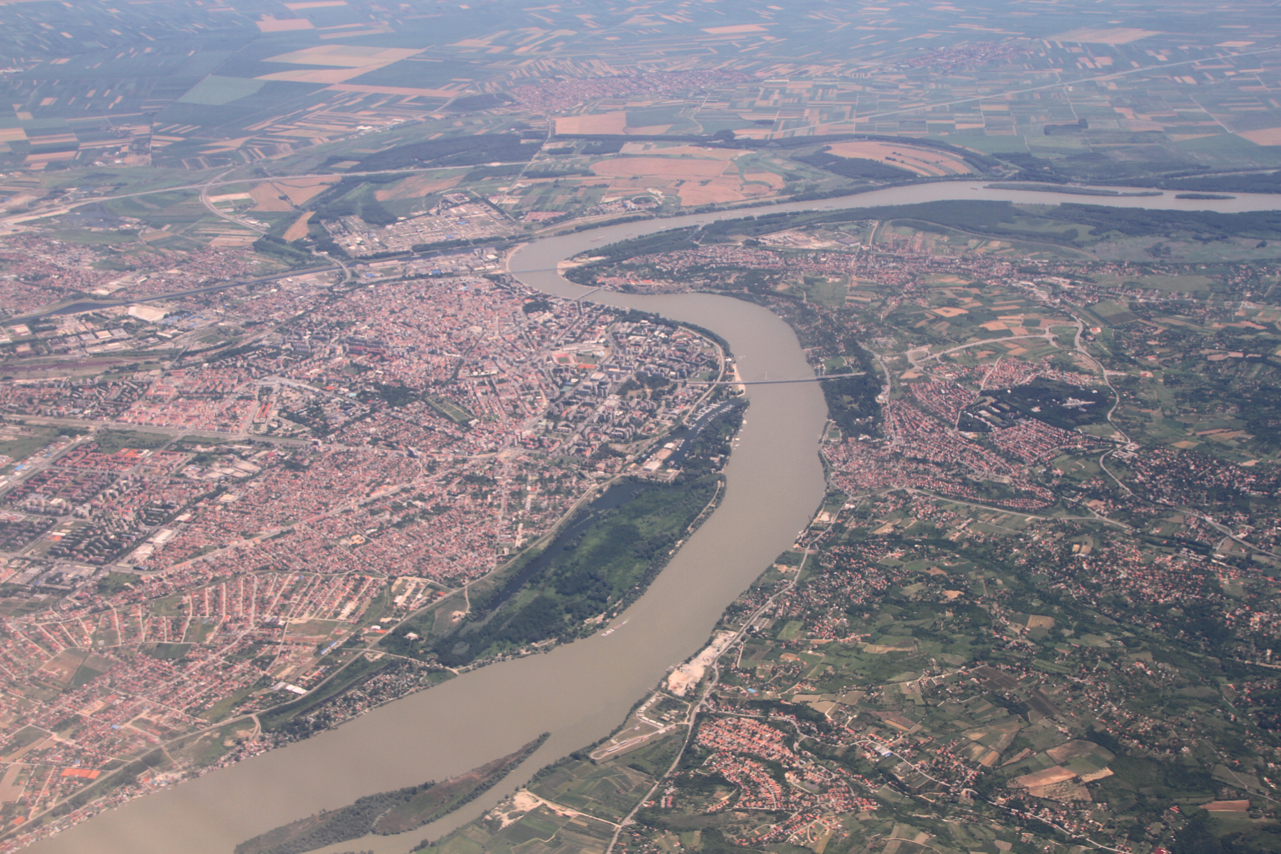 Aerial view of Novi Sad city, along the Danube (Donau) river, in northern Serbia.